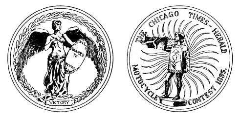 Chicago Times-Herald Race Medal, 1895. On the obverse side the medal bears a typical representation of a herald of the days of chivalry. Around the figure surrounding a background of rays is the inscription, "The Chicago Times-Herald Motocycle Contest, 1895." On the reverse, and surrounded by a wreath of bay leaves, is a winged figure of Victory, with pinions extended and holding on her left arm an oval shield, upon which will be inscribed the name of the winner. The medal is composed of 100 pennyweights of fine gold and is valued at $250.